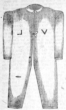 Illustration of temple garment used by members of The Church of Jesus Christ of Latter-day Saints circa 1879.